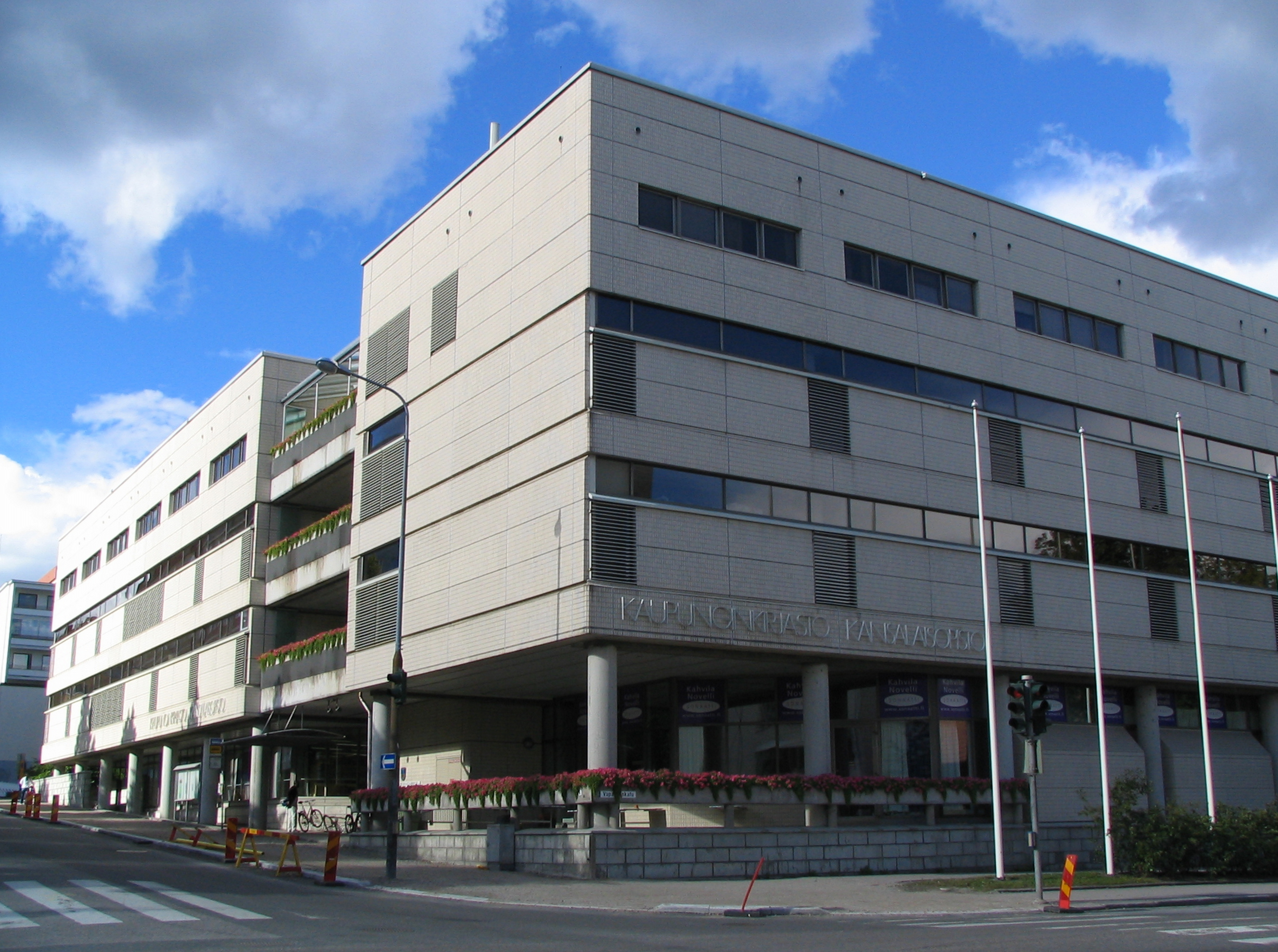 Jyväskylä City Library, address: Vapaudenkatu 39–41, FI-40100 JYVÄSKYLÄ, Finland. Built in 1977–1980.